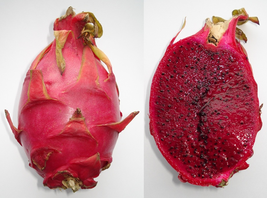 Hylocereus monacanthus - fruit